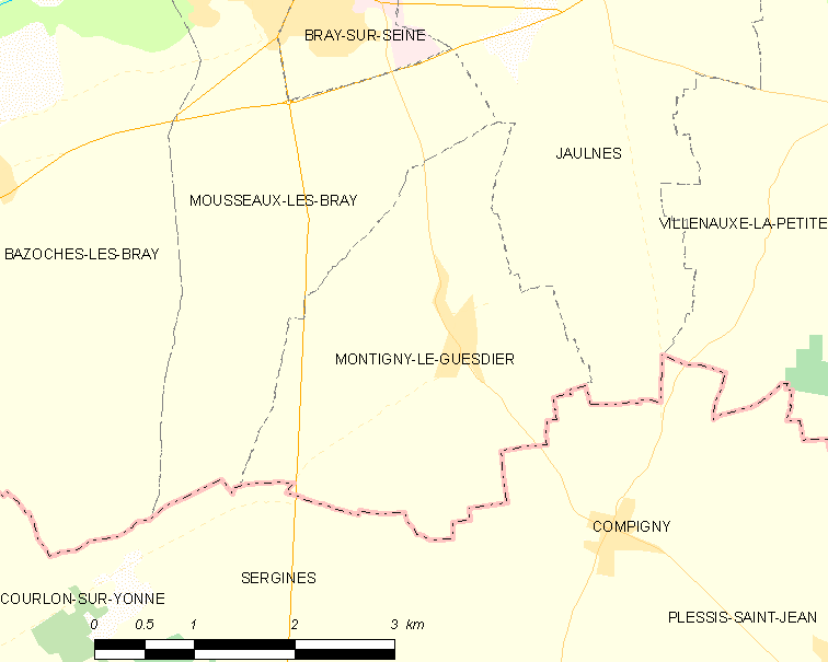 Map of French municipality Montigny-le-Guesdier